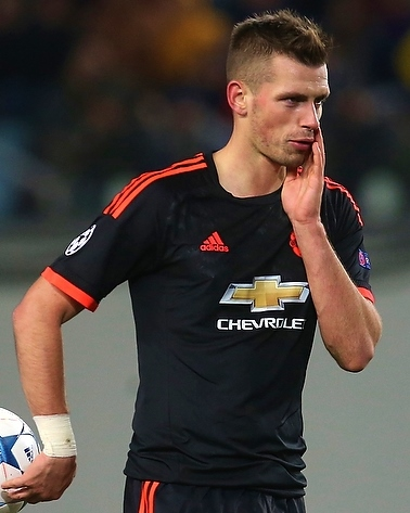 Morgan Schneiderlin